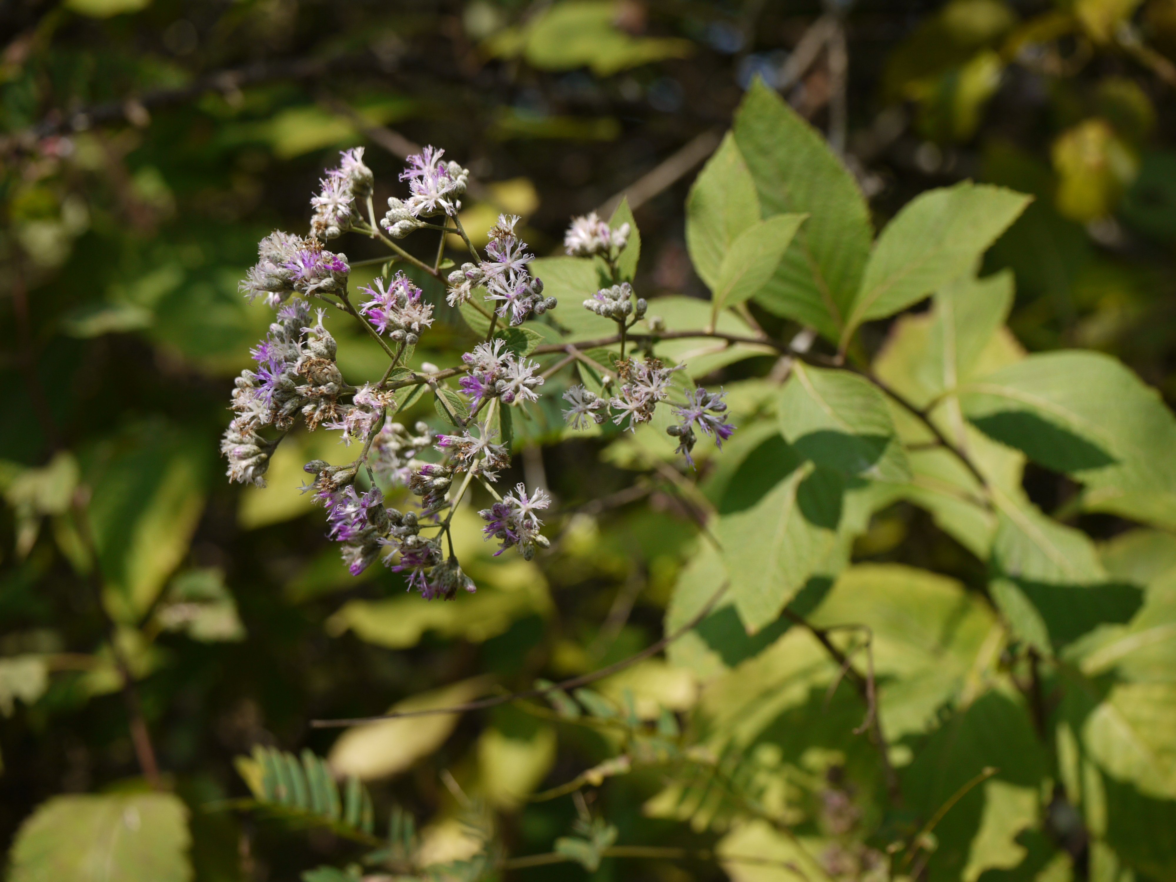 Asteraceae (daisy family) » Vernonia divergens ver-NON-ee-uh -- named for William Vernon, English botanist ... Dave's Botanary div-VER-jens or dy-VER-jens -- diverging (spreading) from a central point ... Dave's Botanary commonly known as: bandar • Marathi: बंदर bundar Native to: ¿ endemic to ? peninsular India References: Flowers of India • Flowers of Sahyadri by Shrikant Ingalhalikar